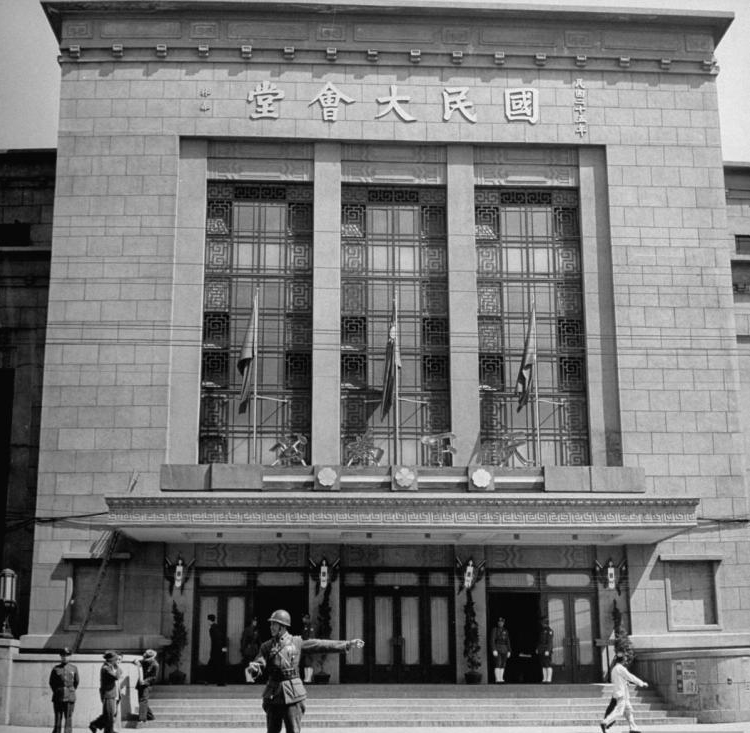 The picture was taken in 1946. The copyright has expired.